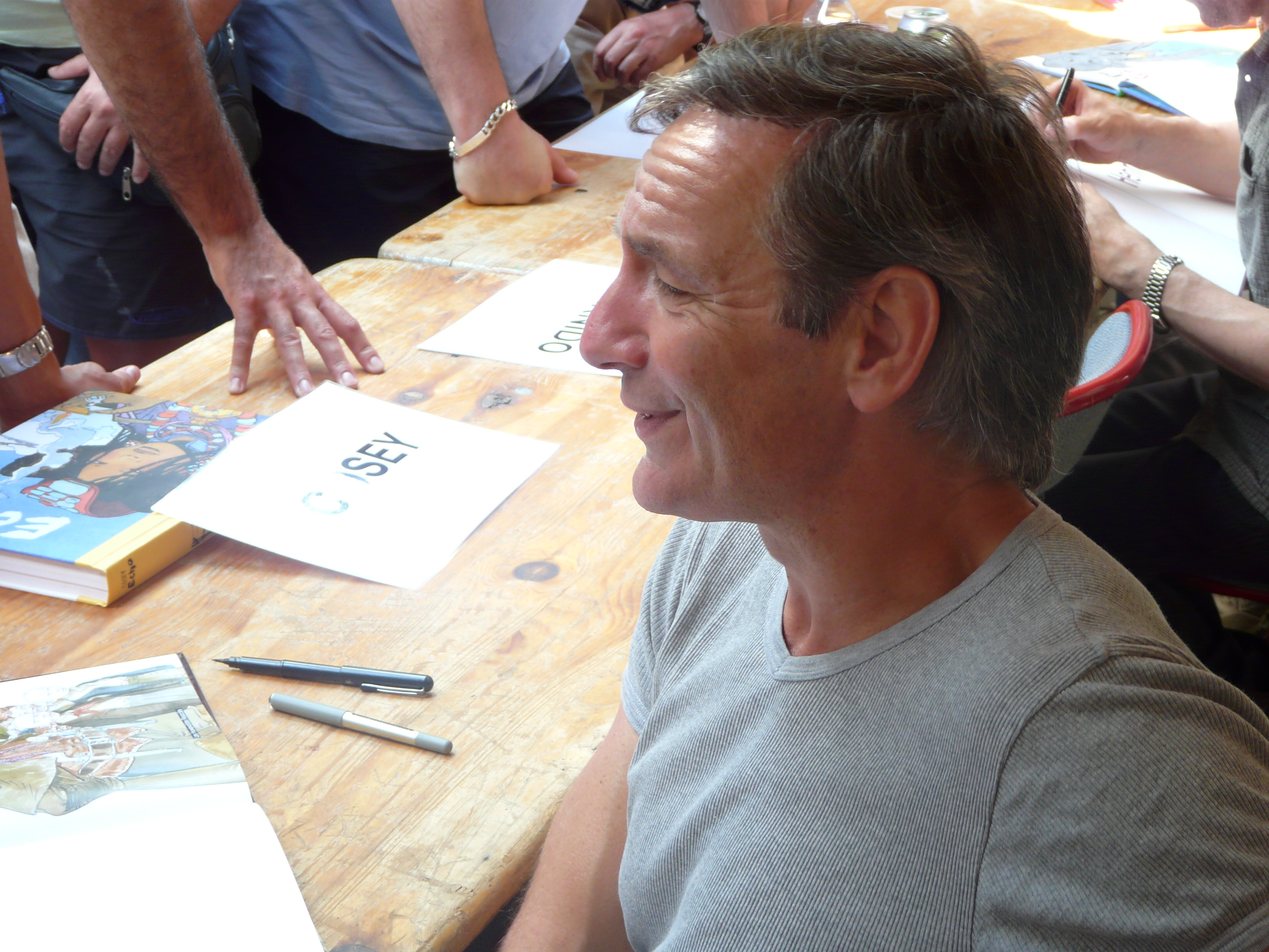 Photographs taken during the International Comic Festival of Sollies Ville, France